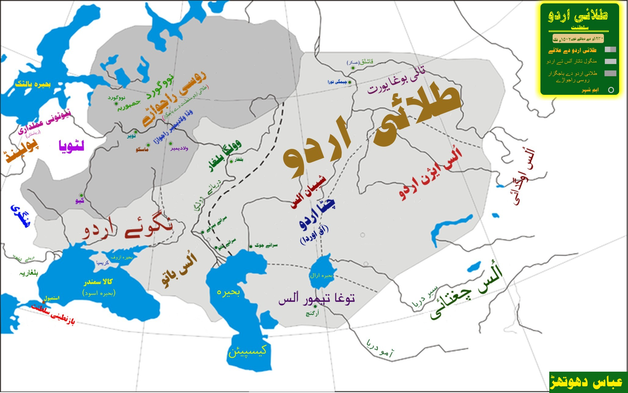 Map of Golden Hord in Punjabi Shahmukhi.